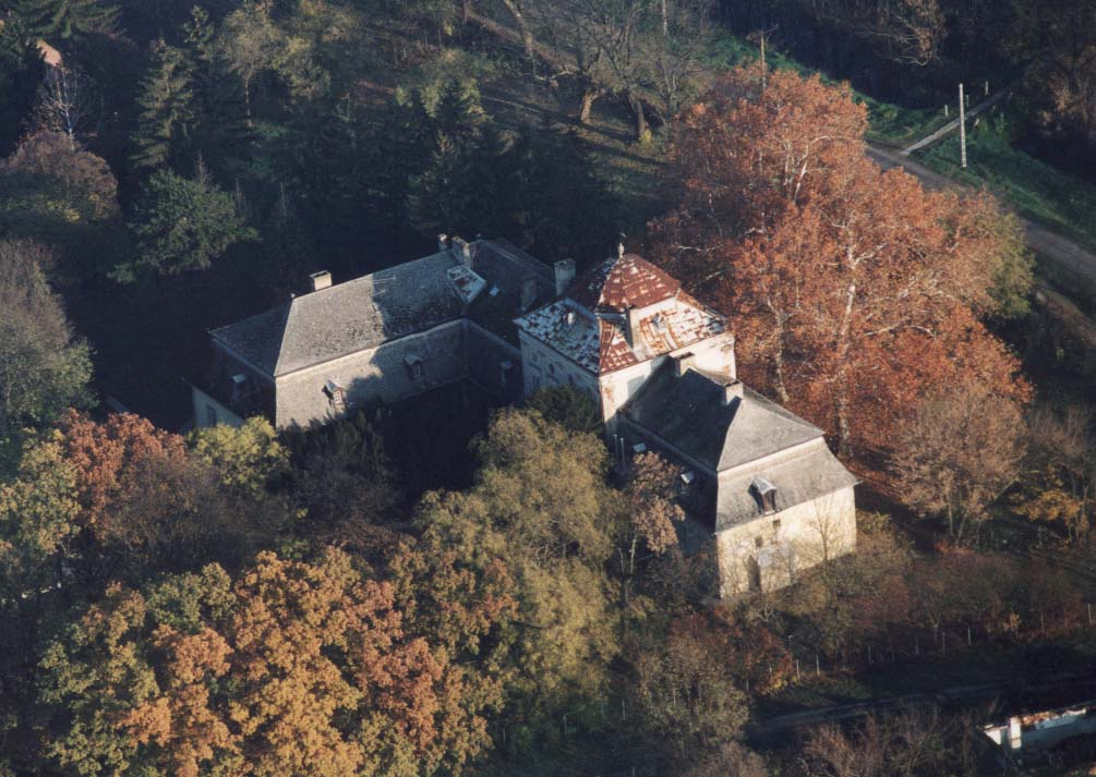 Palace - Geszt - Hungary - Europe (Tisza Mansion)